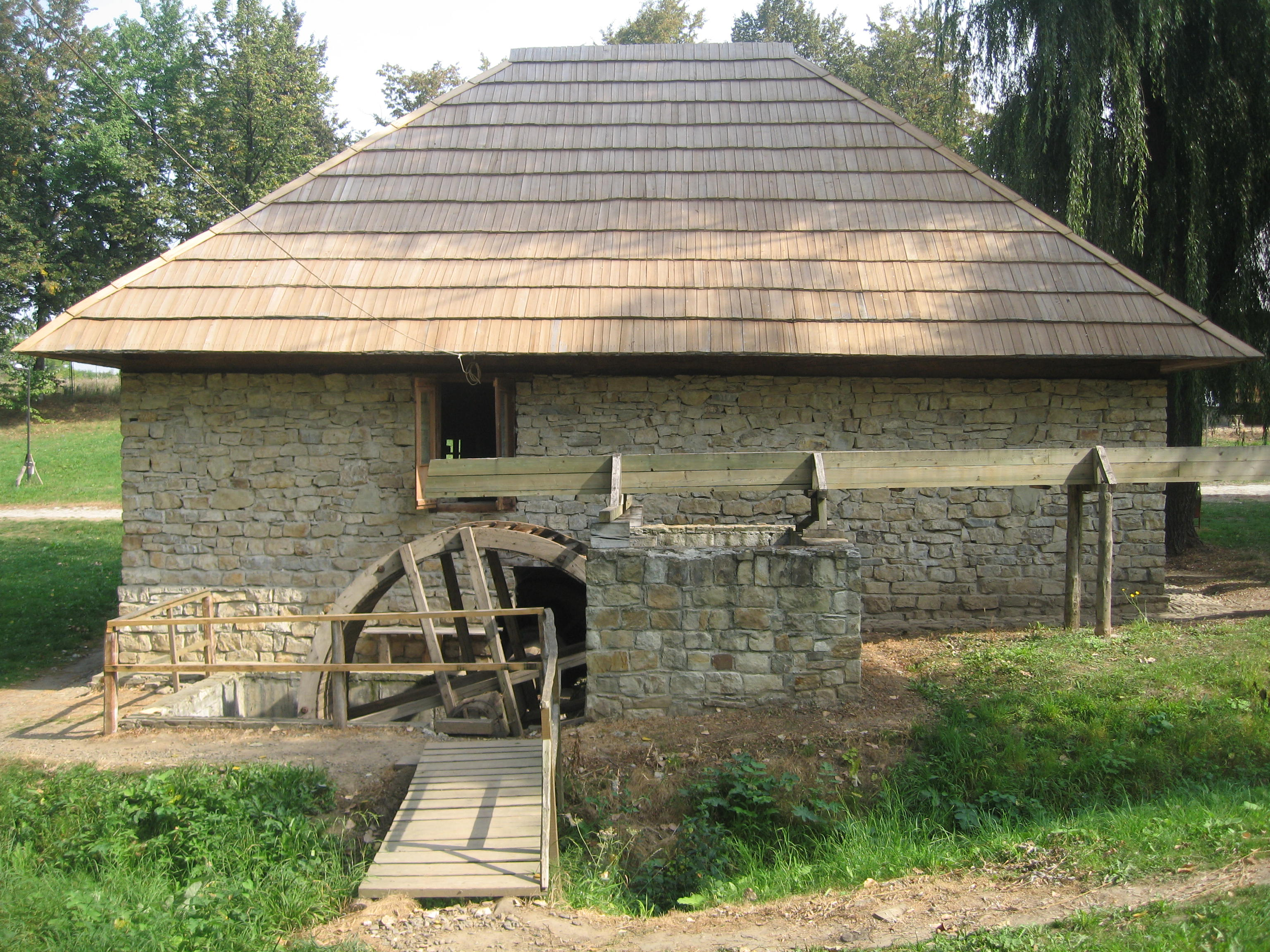 Bukovina Village Museum - The Mănăstirea Humorului Watermill (exterior bucket wheel), Humor ethnographic area.